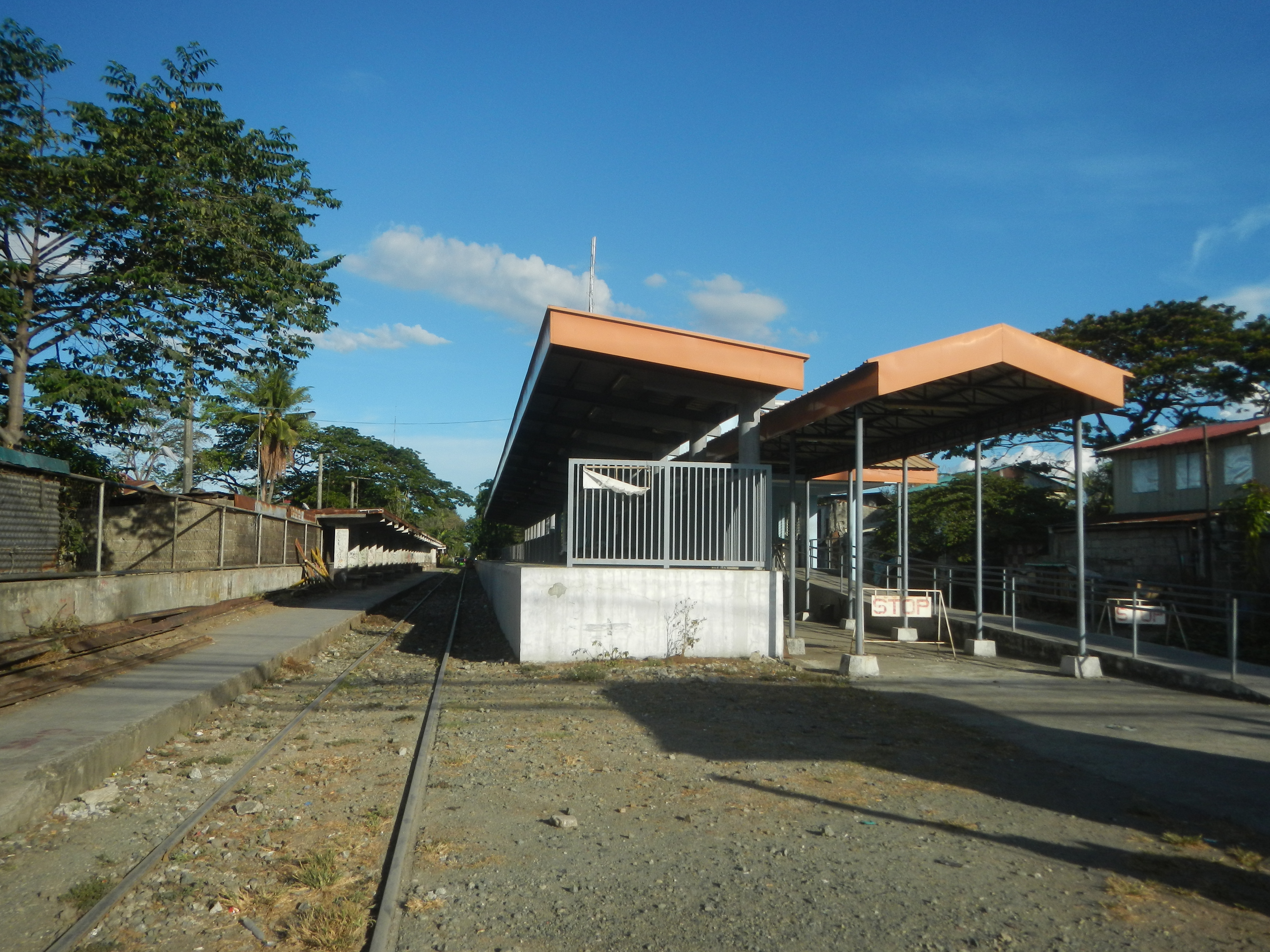 Exterior of the Central Mall Biñan - Savemore Market Biñan (PNR station) Barangay San Vicente 14°19'51"N 121°4'35"E Tubigan 14°19'44"N 121°4'10"E Biñan City of Biñan, Laguna; Legislative district of Biñan (Note: Judge Florentino Floro, the owner, to repeat, Donor Florentino Floro of all these photos hereby donate gratuitously, freely and unconditionally all these photos to and for Wikimedia Commons, exclusively, for public use of the public domain, and again without any condition whatsoever).